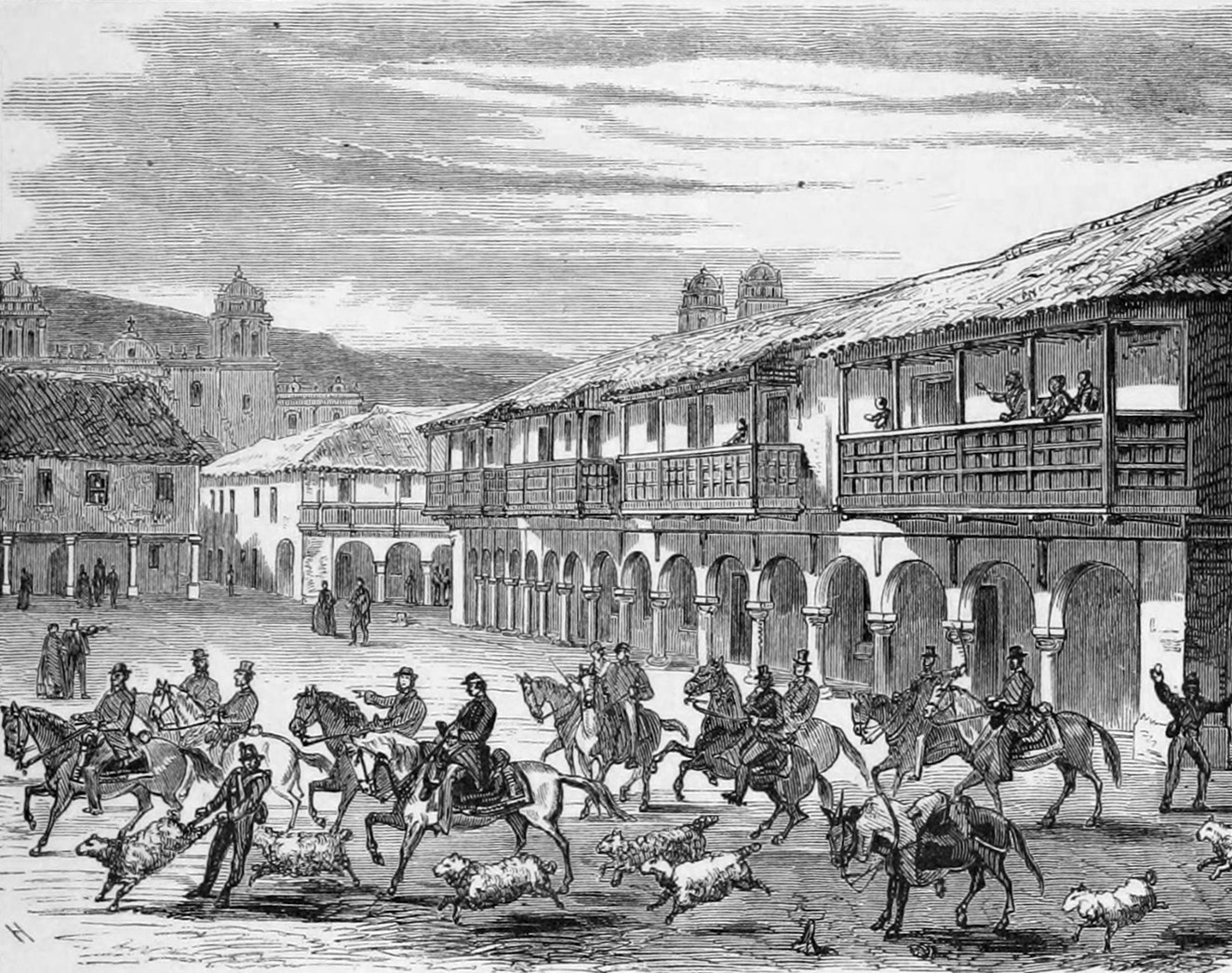 Drawing made by Ephraim George Squier published in his book Peru; Incidents of Travel and Exploration in the Land of the Incas (1877).